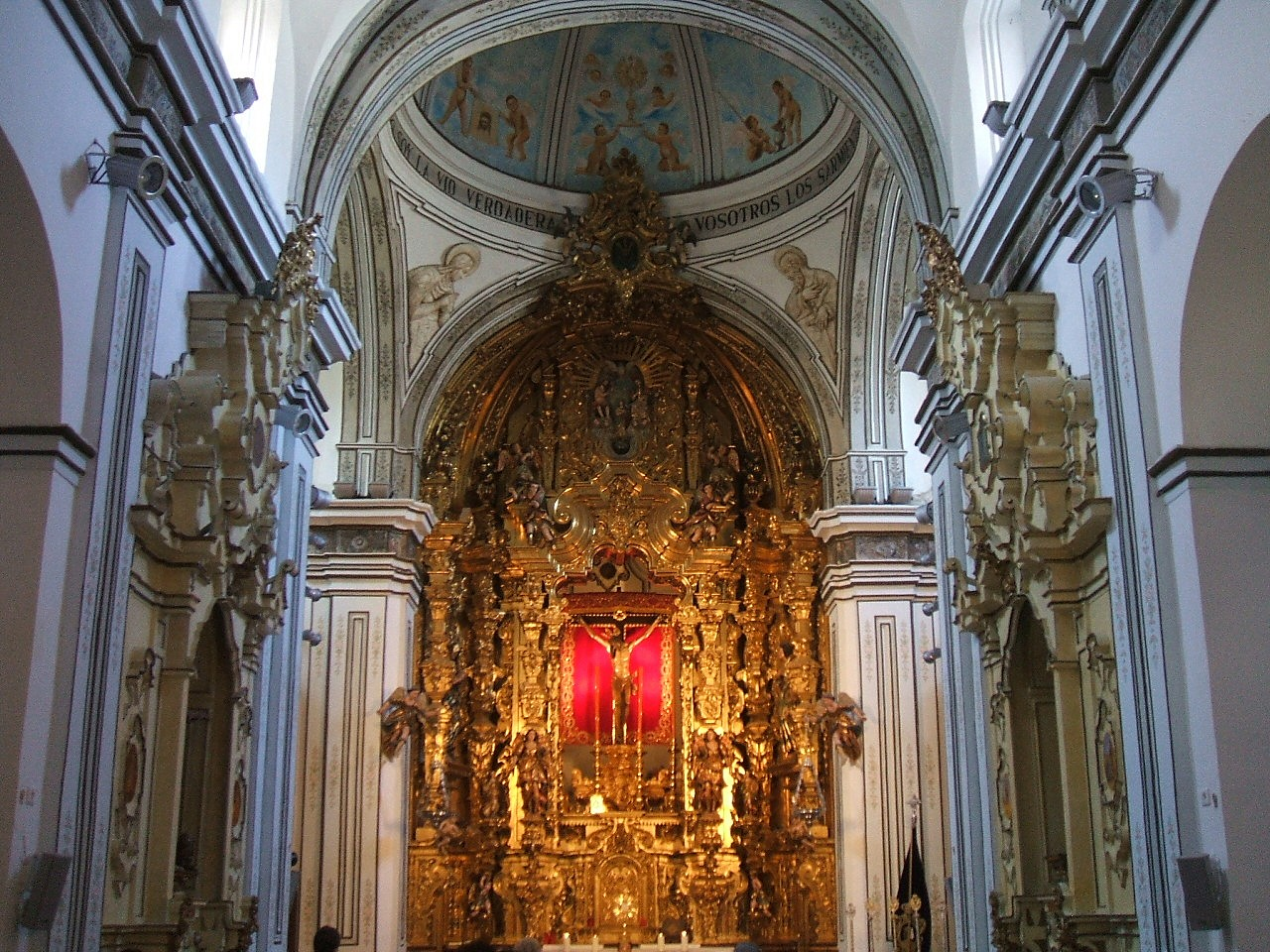 Capilla Sacramental, Iglesia de San Gil, Écija, Sevilla, Andalucía, España